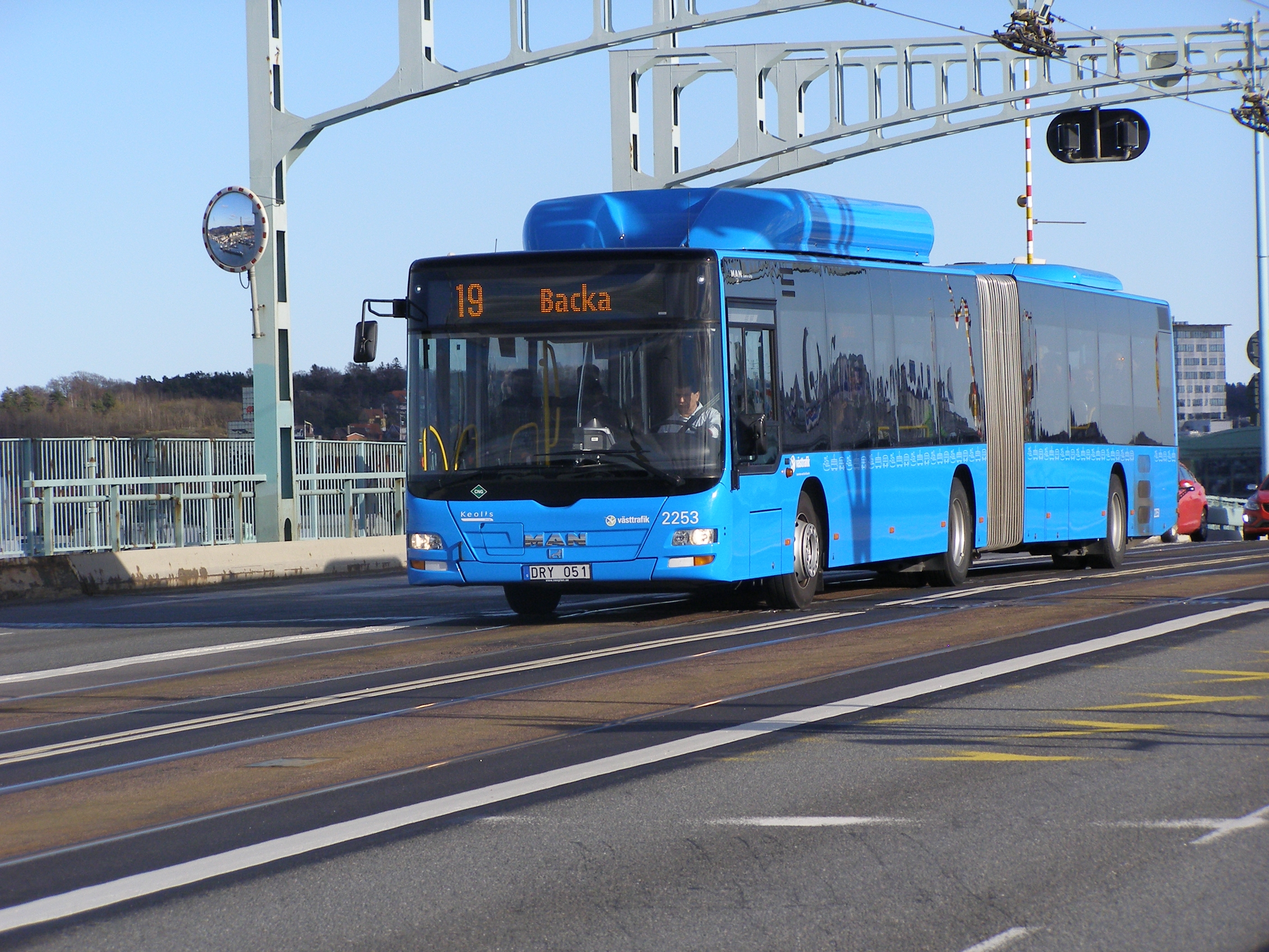 Gothenburg - Göta älvbron - MAN NG313 Lion's City G bus #2253 on line No. 19